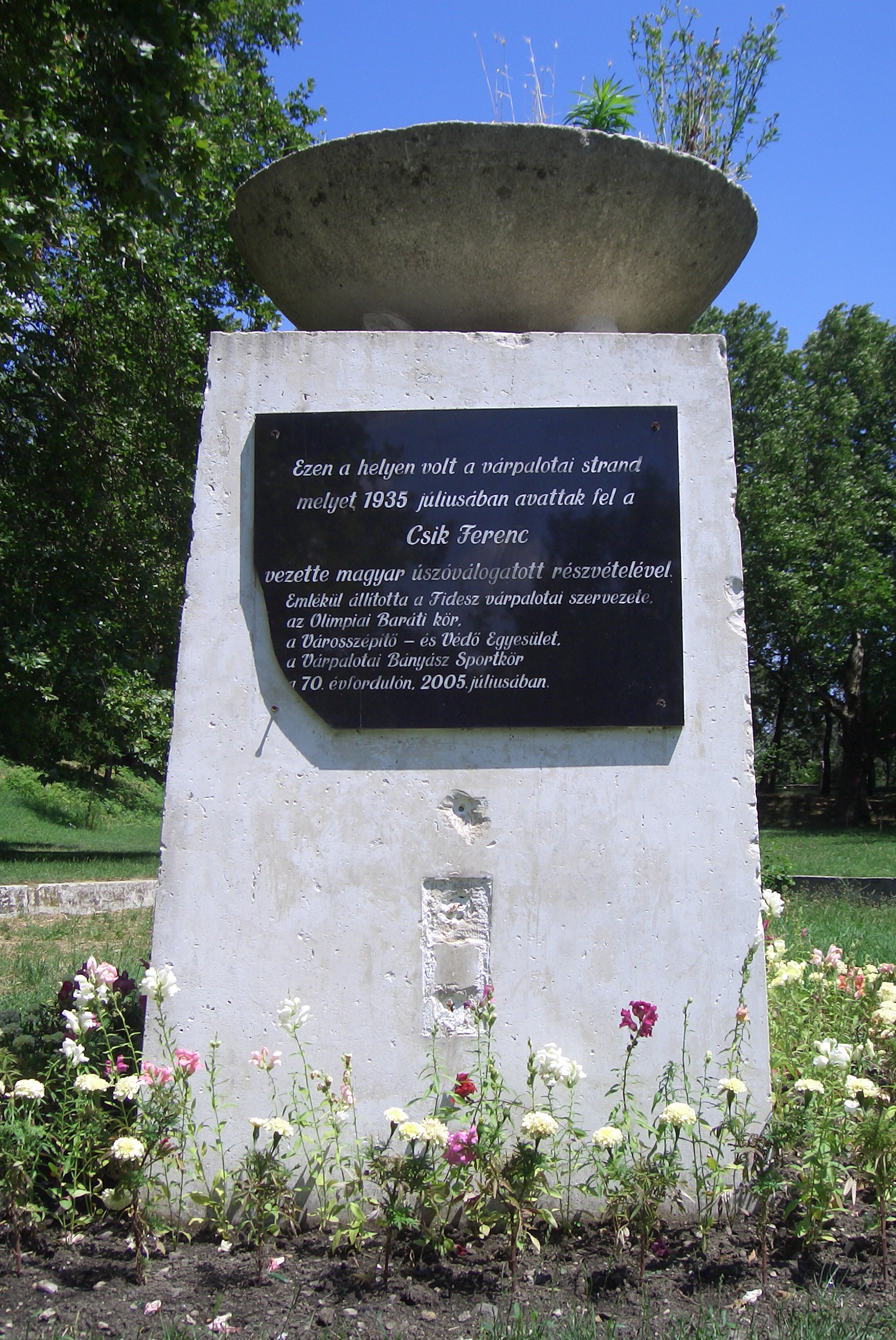 Ruin of the monument of the 1935 opeining of the former Swimming Pool. (Monument was erected 2005). The 1935 opening was made in presence of Ferenc Csik and the Hungrian water polo team of that time.